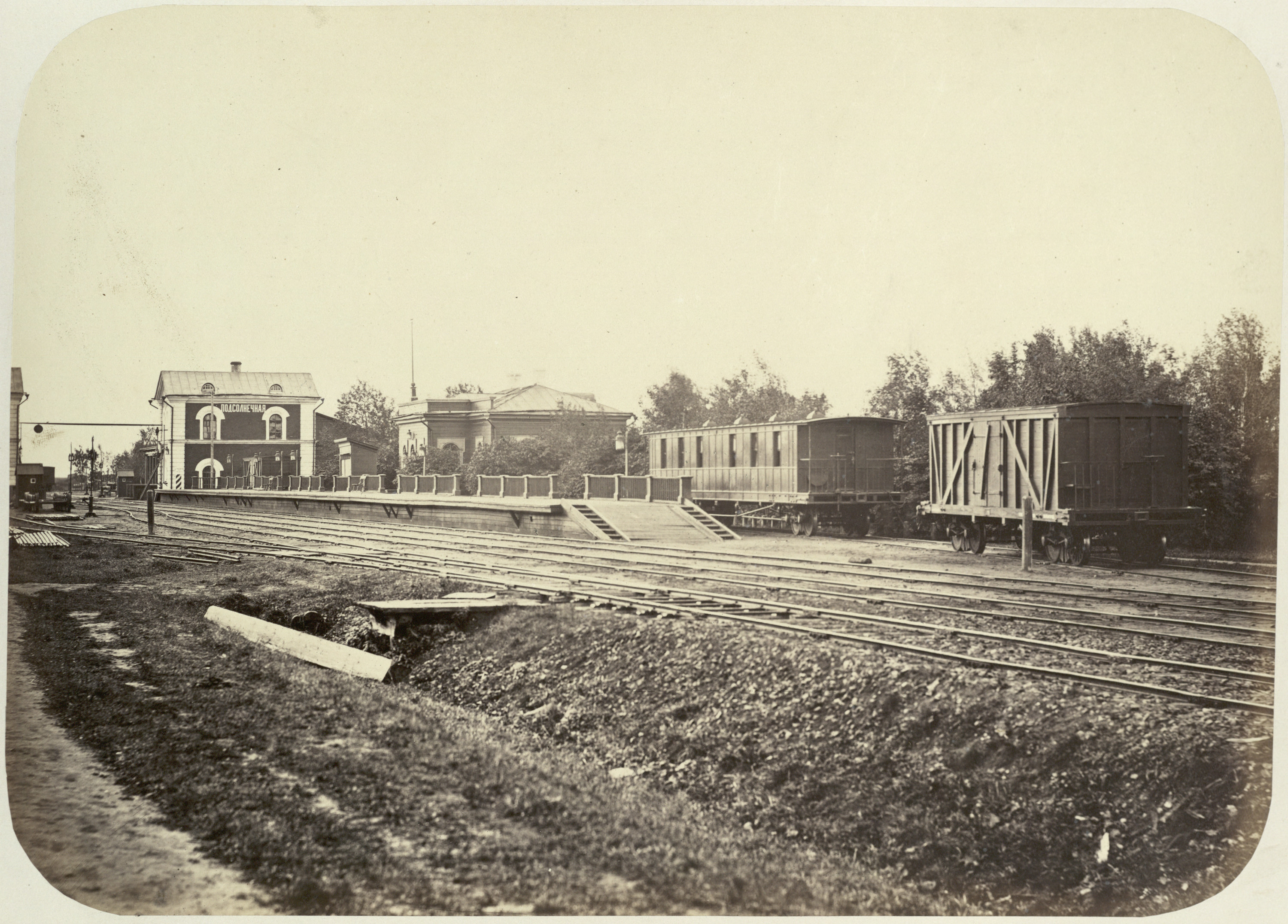 Railway station Podsolnechnaya